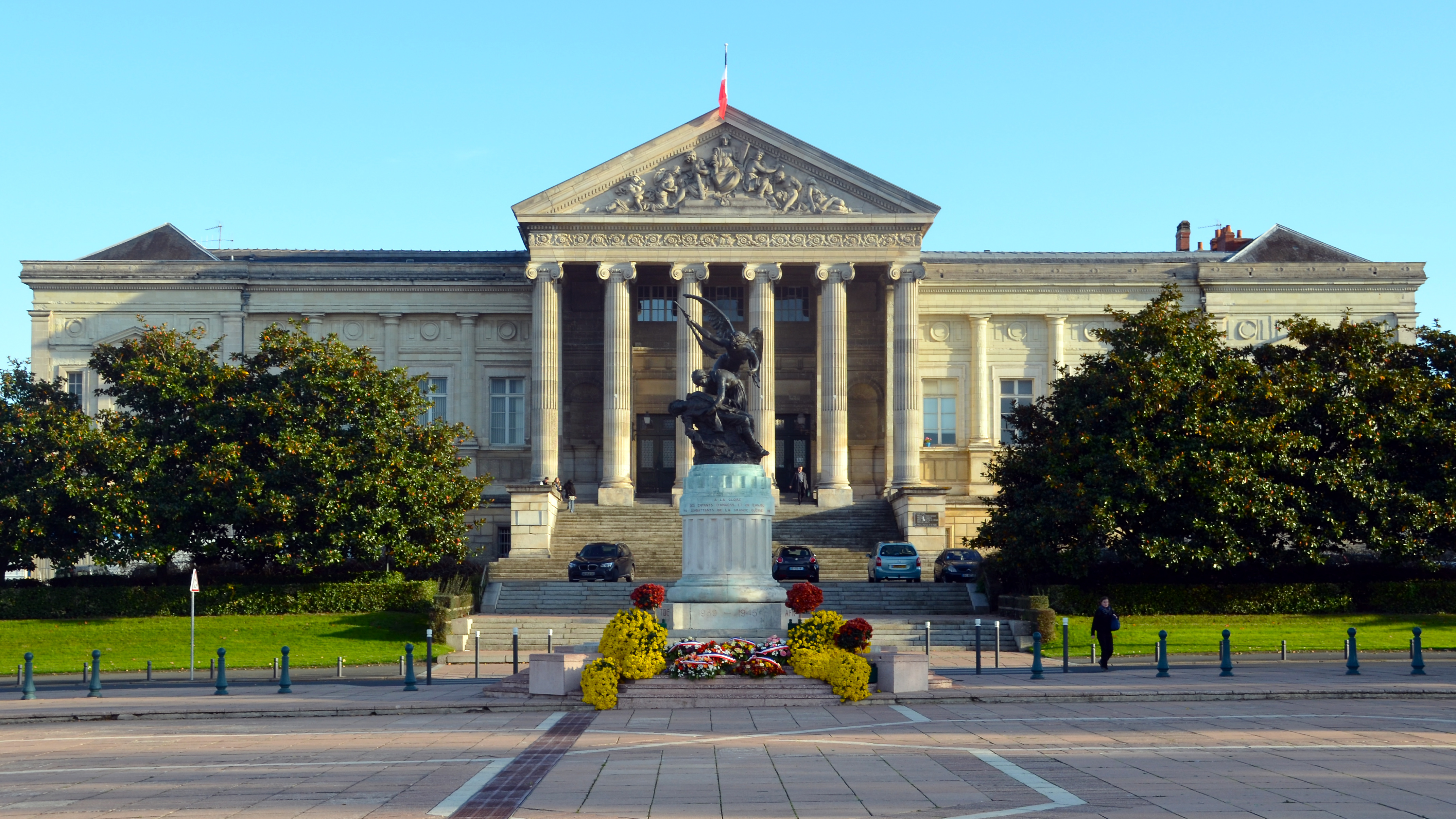 Courthouse - Angers (Maine-et-Loire, France)